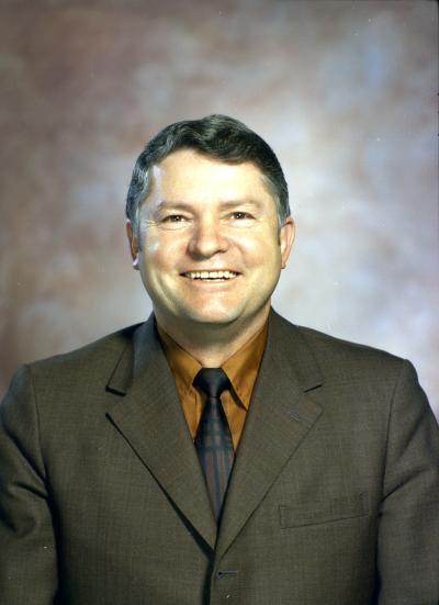 Representative A. N. "Bud" Shinpoch, 1971